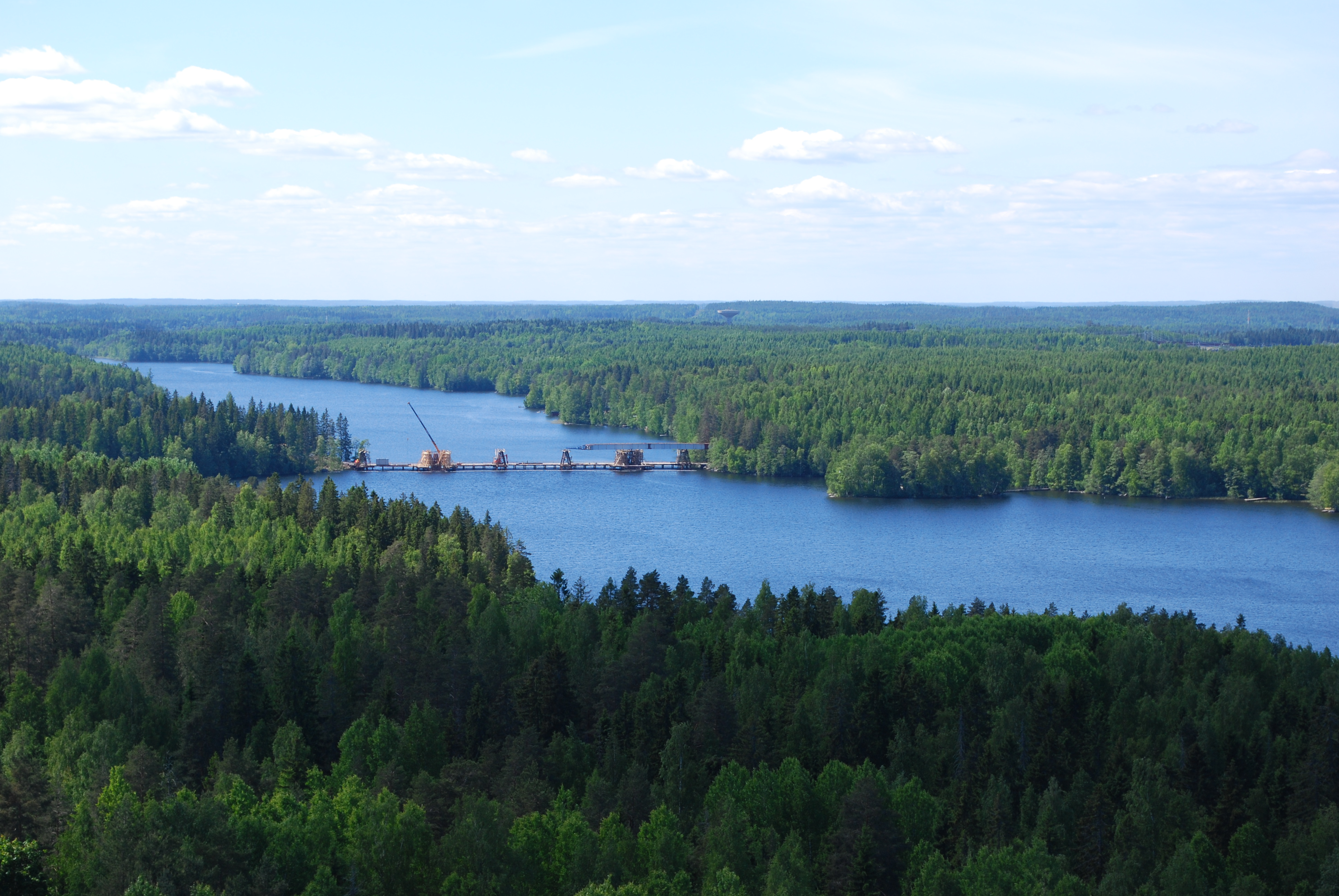 Särkijärvi bridge under construction in 2010